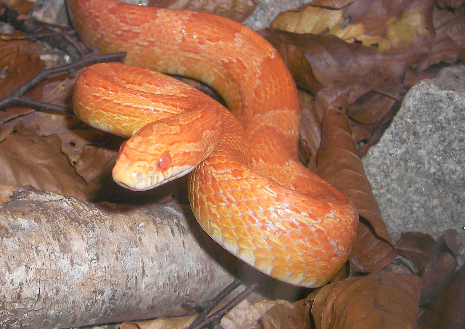 Corn snake, Pantherophis guttatus